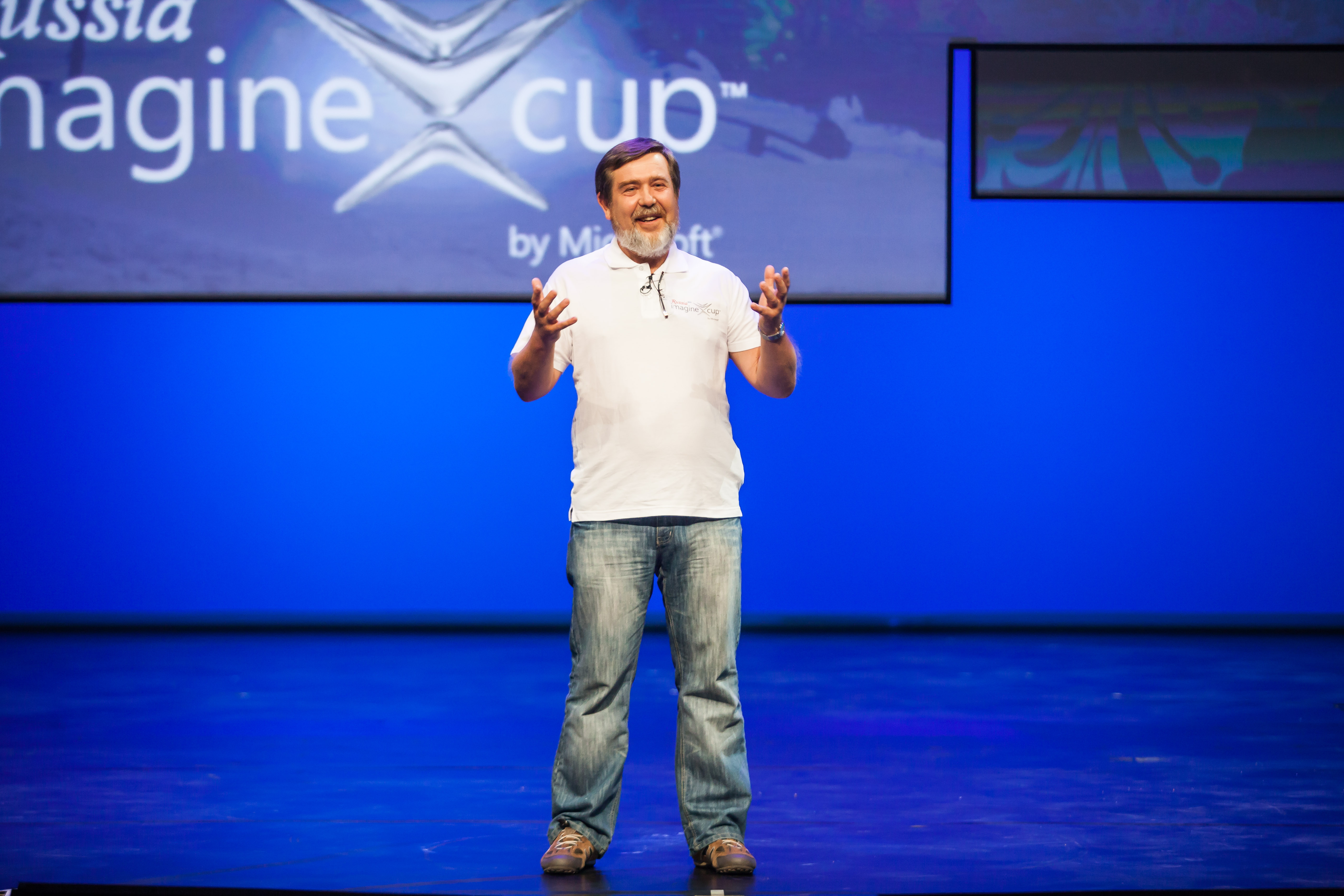 Imagine Cup 2013 Worldwide Finals event in St. Petersburg, Russia - July 8-11, 2013